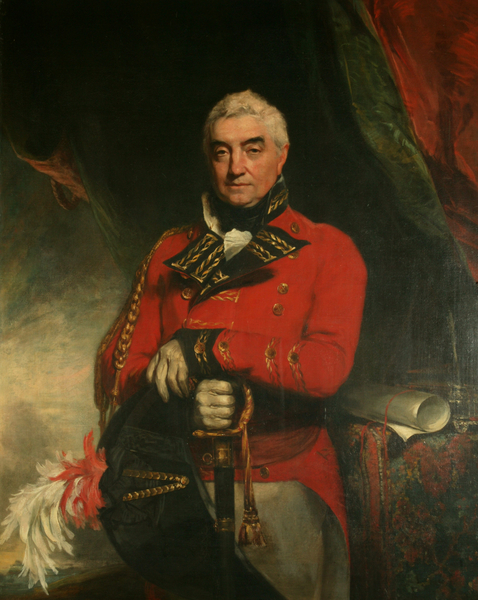 Sir Barry Close (1756–1813) (Major General Sir Barry Close, Bart.)